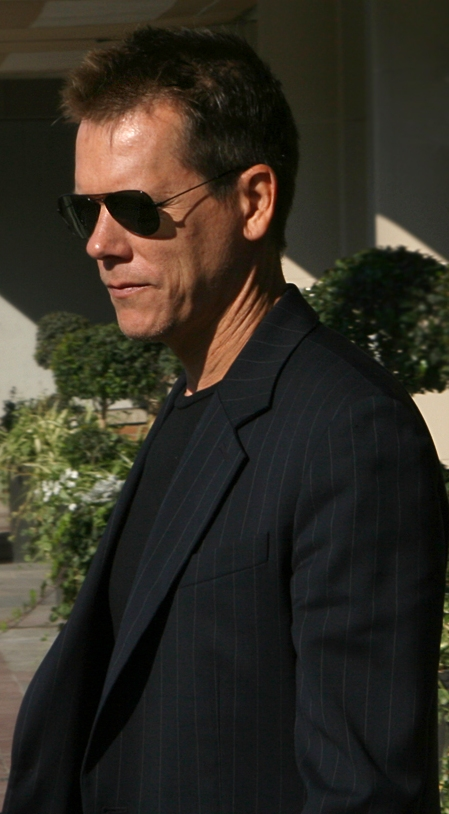 Kevin Bacon at the 2007 Toronto International Film Festival